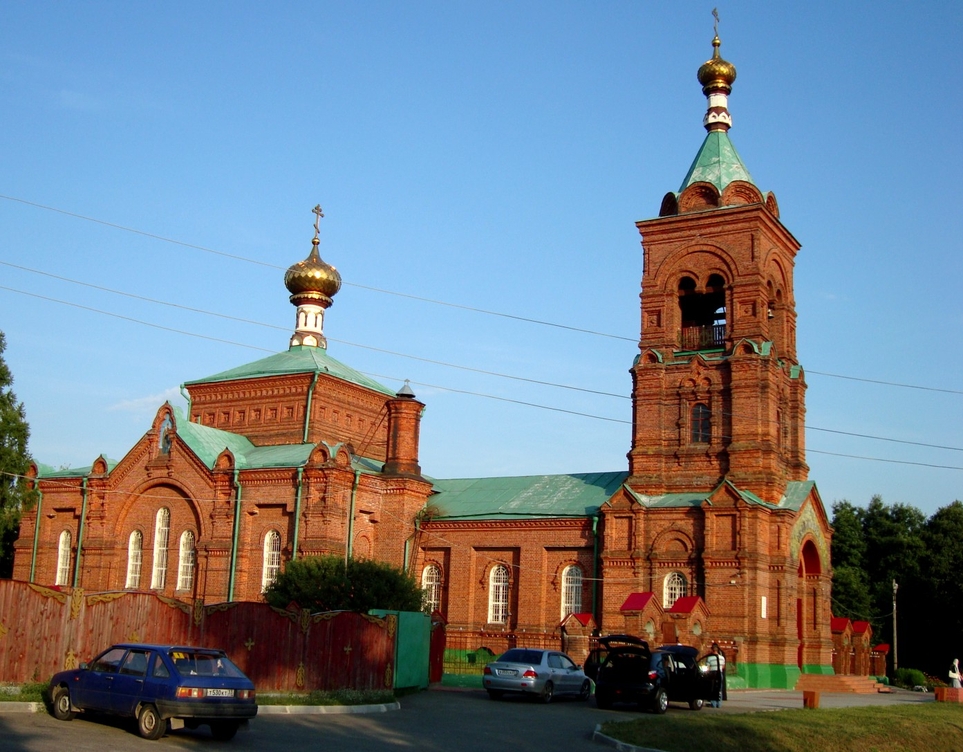 Church of Dormition of the Theotokos at Petushki, Vladimir oblast, Russia.